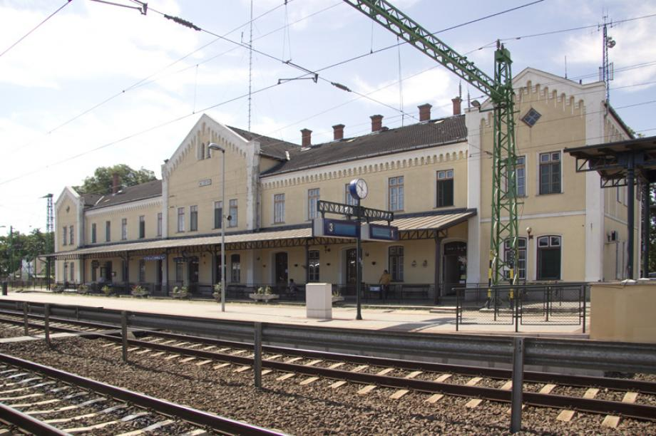 Before 2013 restorationVasútállomás felvételi épülete, műemléki azonosító: 6025 törzsszám: 9957